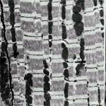 Electron micrograph.